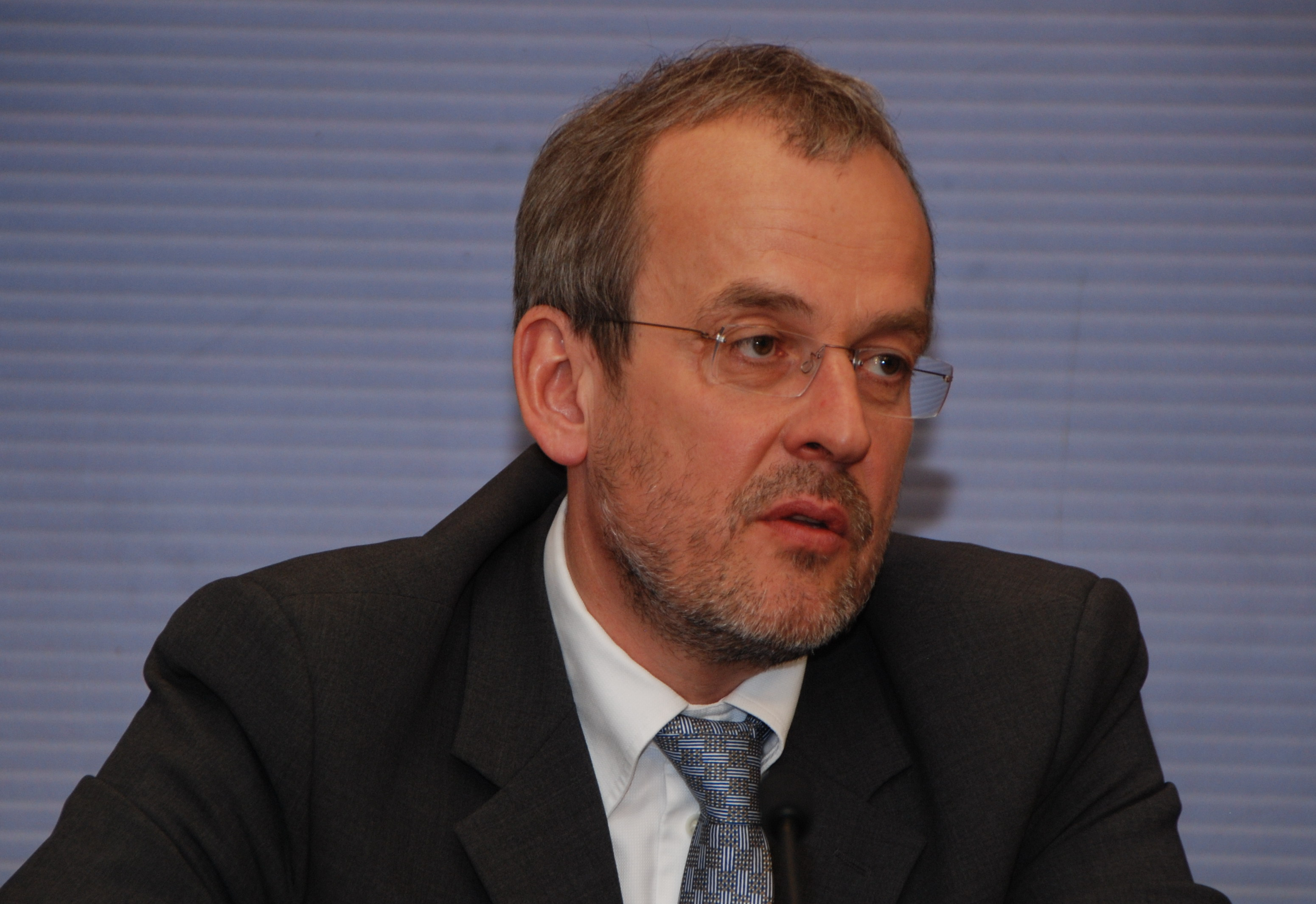 Roberts Zīle (Latvia MEP, former Minister of Finance and Minister of Transport) in a press conference.